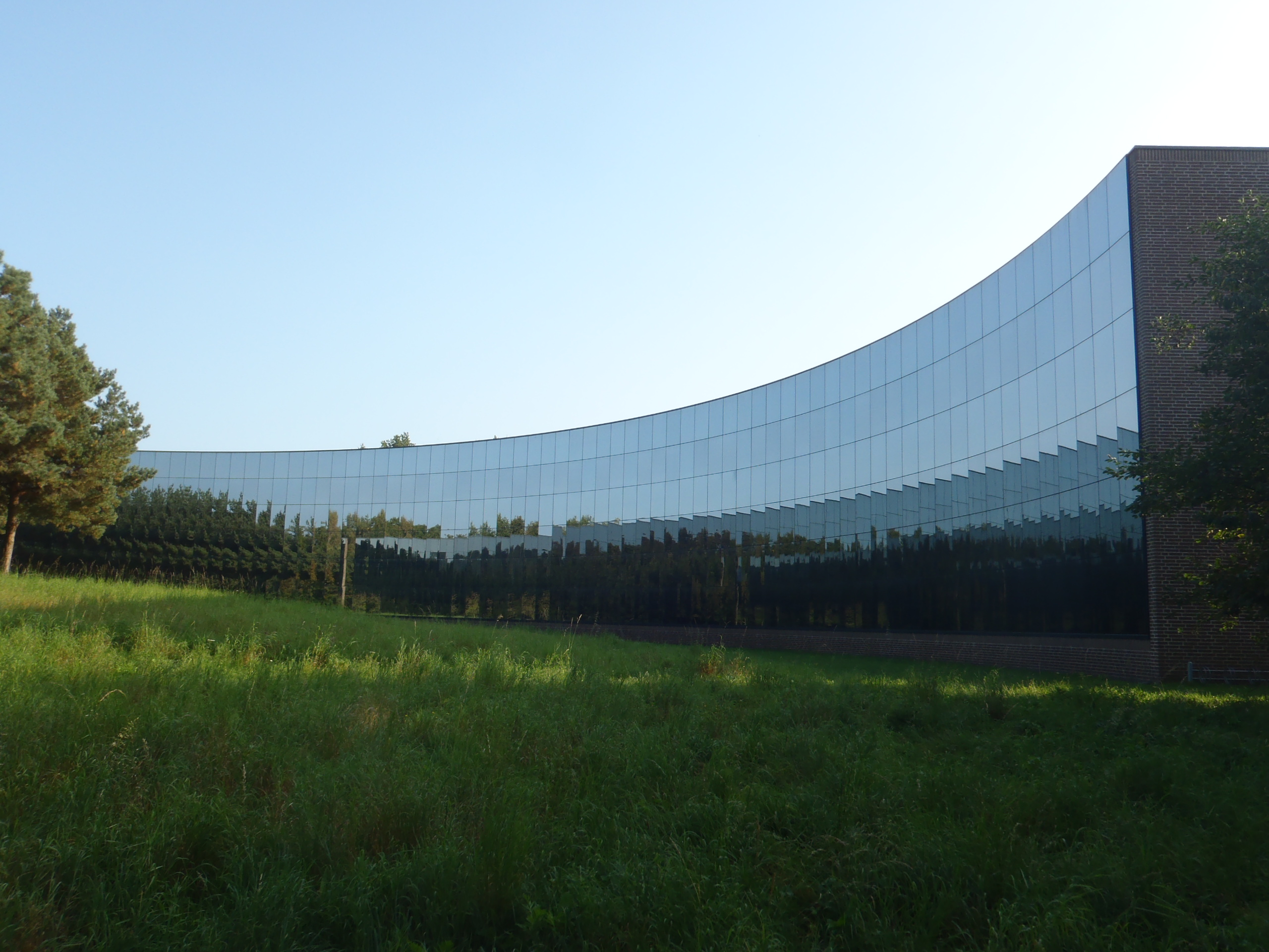 Halvcirklen, IBM office building in Ravnholm, Lyngby-Taarbæk, Denmark